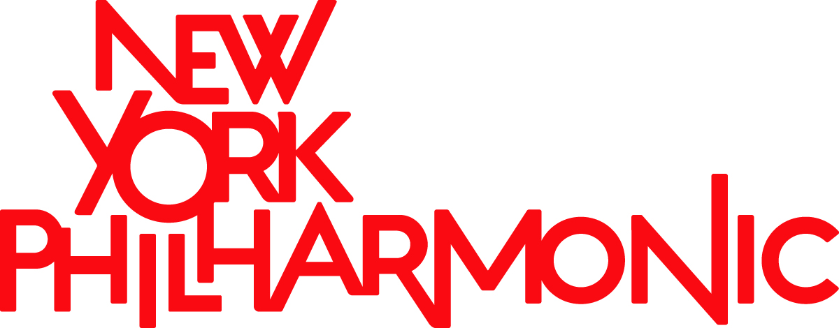 The New York Philharmonic Logo